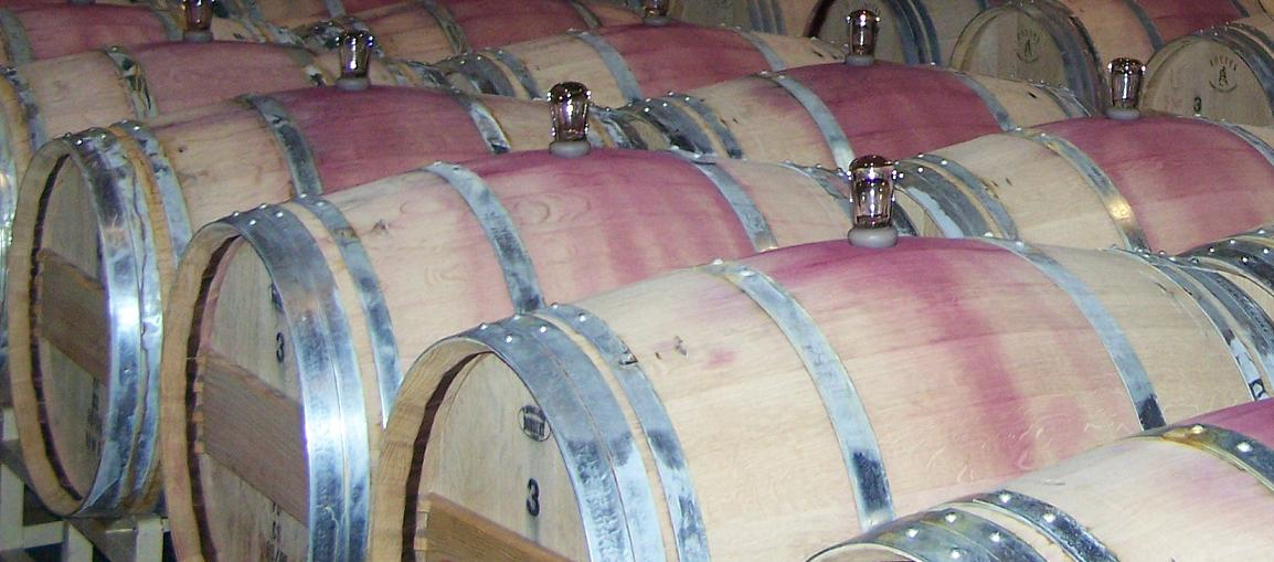 Image of oak barrels at Col Solare Winery on Red Mountain, WA. Photo taken July, 2007 with a Kodak z650.